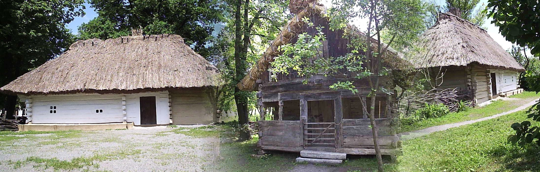 Birth-place of Taras Shevshenko. This house is now a museum and is situated in the village of Moryntsi, Ukraine. The picture is a creation from Labberté K.J./Shulga V.